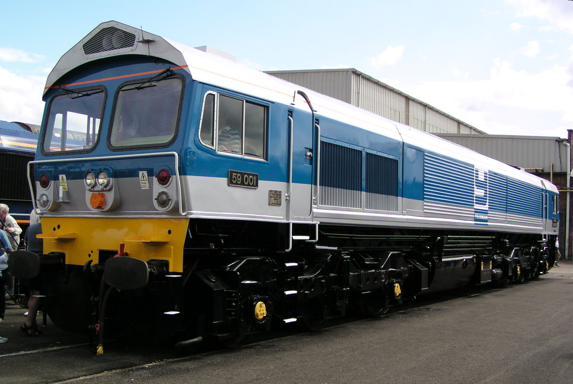 British Rail Class 59, no. 59001 "Yeoman Endeavour" on display at Doncaster Works open day on 27th July 2003. This locomotive carries the revised Foster-Yeoman livery. Image by Phil Scott (Our Phellap)